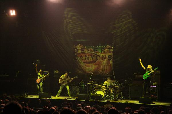 Picture of Scale the Summit performing live